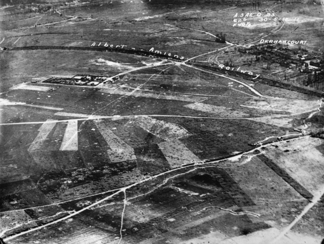 Oblique aerial photograph of Dernancourt, showing the Albert-Amiens railway line.